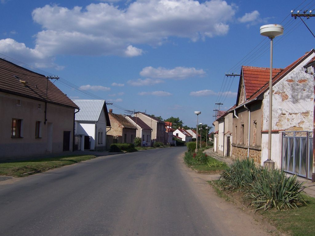 Tuchoraz